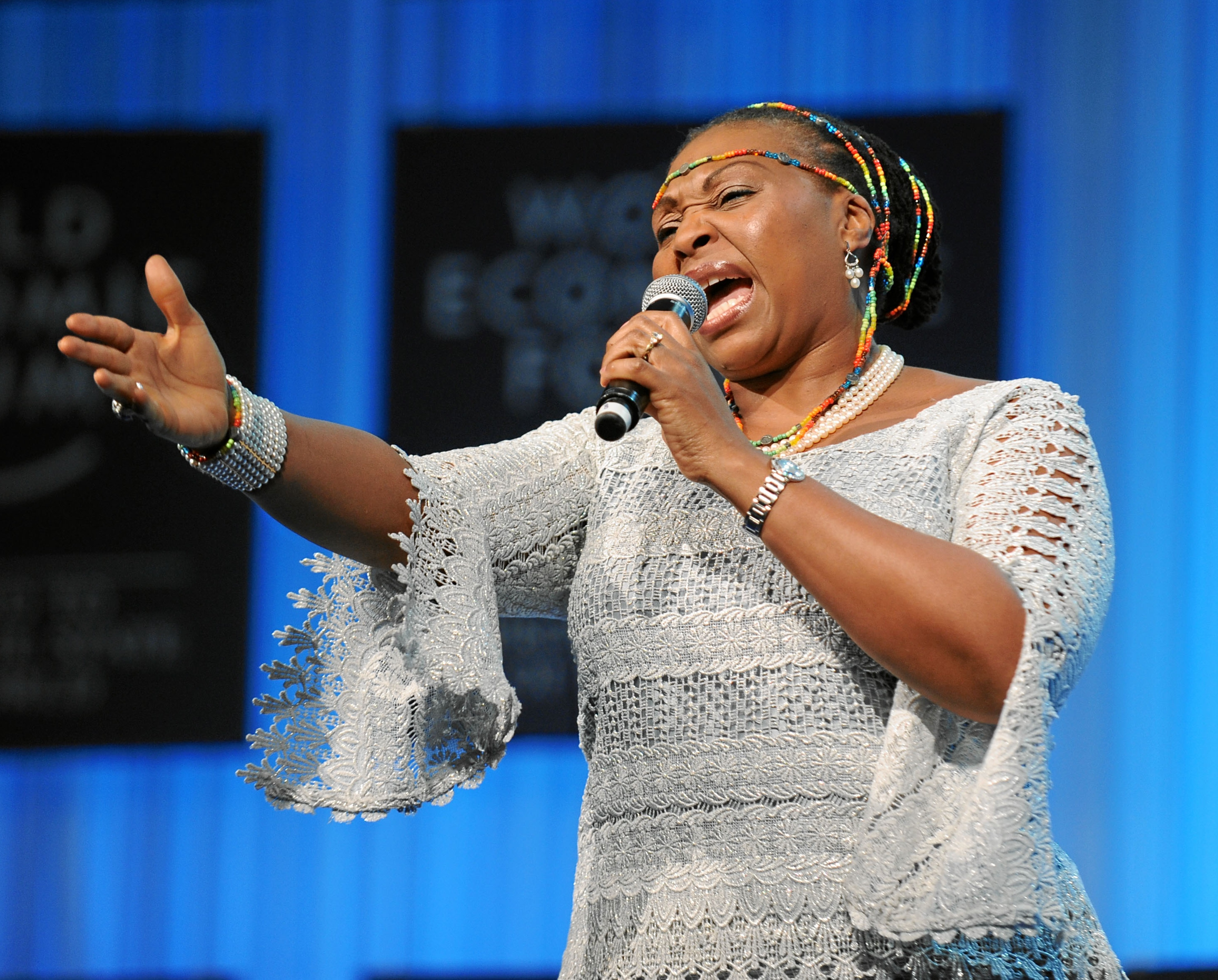 DAVOS/SWITZERLAND, 25JAN12 - Yvonne Ntombizodwa Chaka Chaka, Singer and President, Princess of Africa Foundation, South Africa sings during the Crystal Award Ceremony during the session 'Opening of the Annual Meeting 2012' at the Annual Meeting 2012 of the World Economic Forum at the congress centre in Davos, Switzerland, January 25, 2012.. . Copyright by World Economic Forum. by Michael Wuertenberg